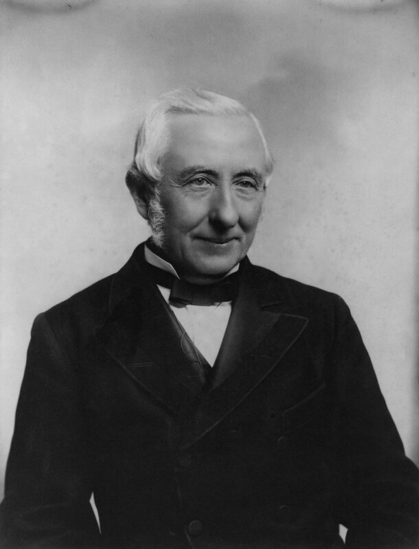 Sir William Mackinnon, 1st Bt by Eveleen Myers (née Tennant) platinum print, 1890s